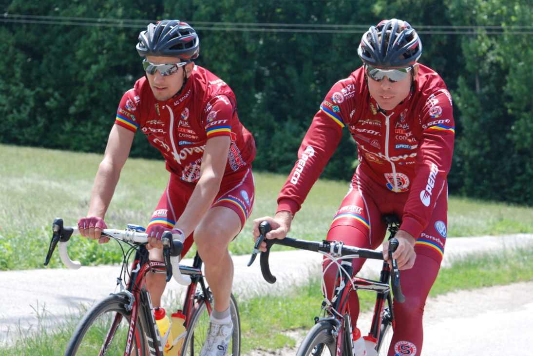 AC Sparta Praha Cycling, Roman Broniš (on the right) and Martin Hunal